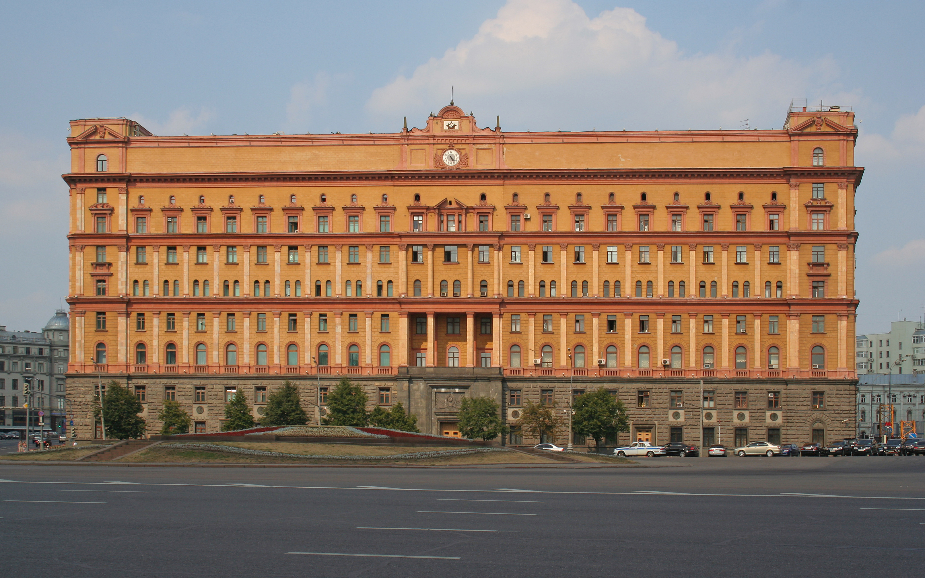 The Lubyanka building (former KGB headquarters) in Moscow